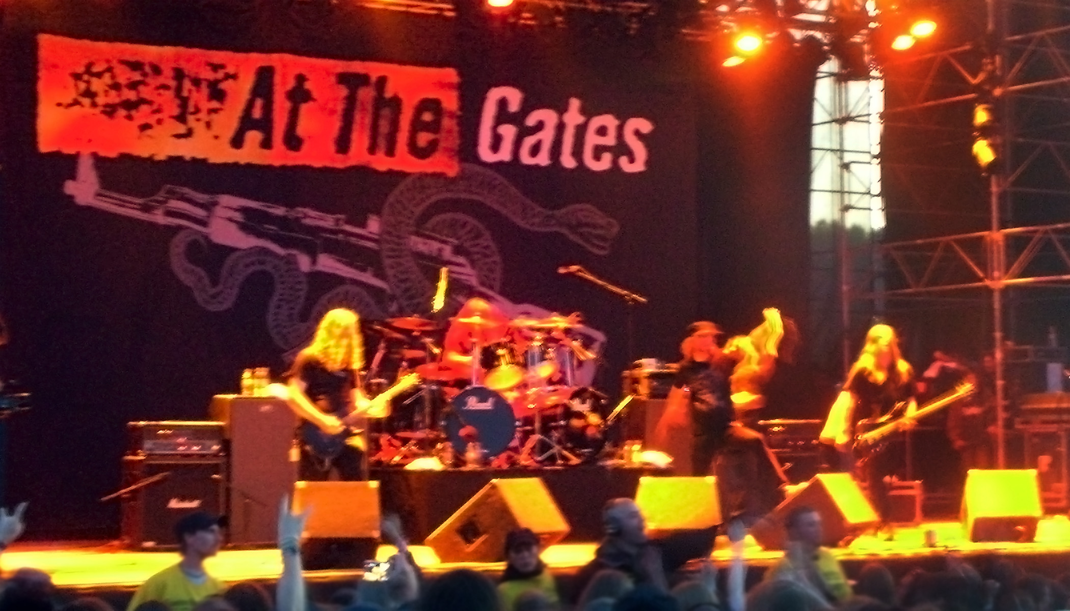 Swedish death metal band At the Gates performing at the Sweden Rock Festival in 2008.